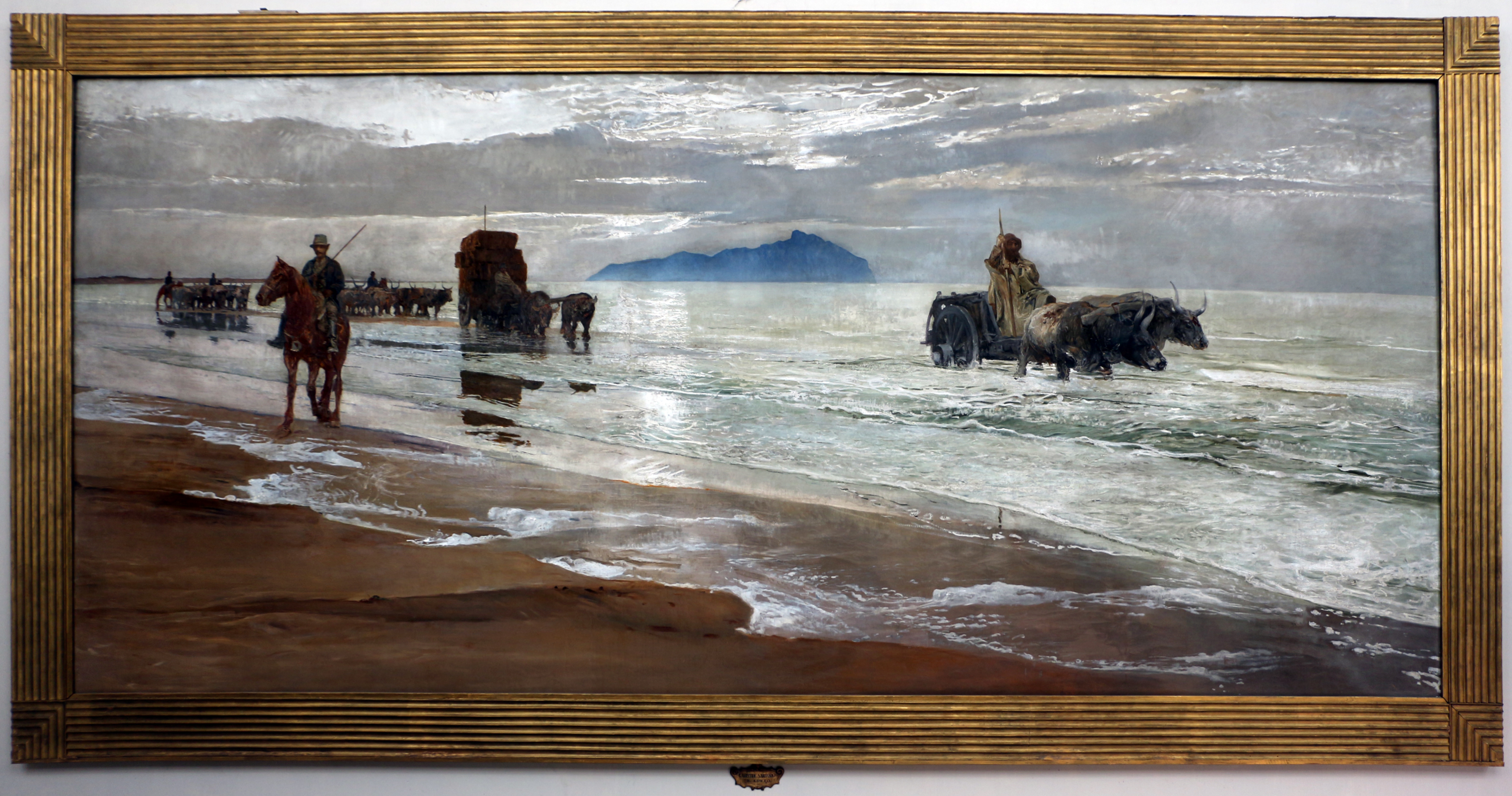 Accademia di San Luca - Gallery